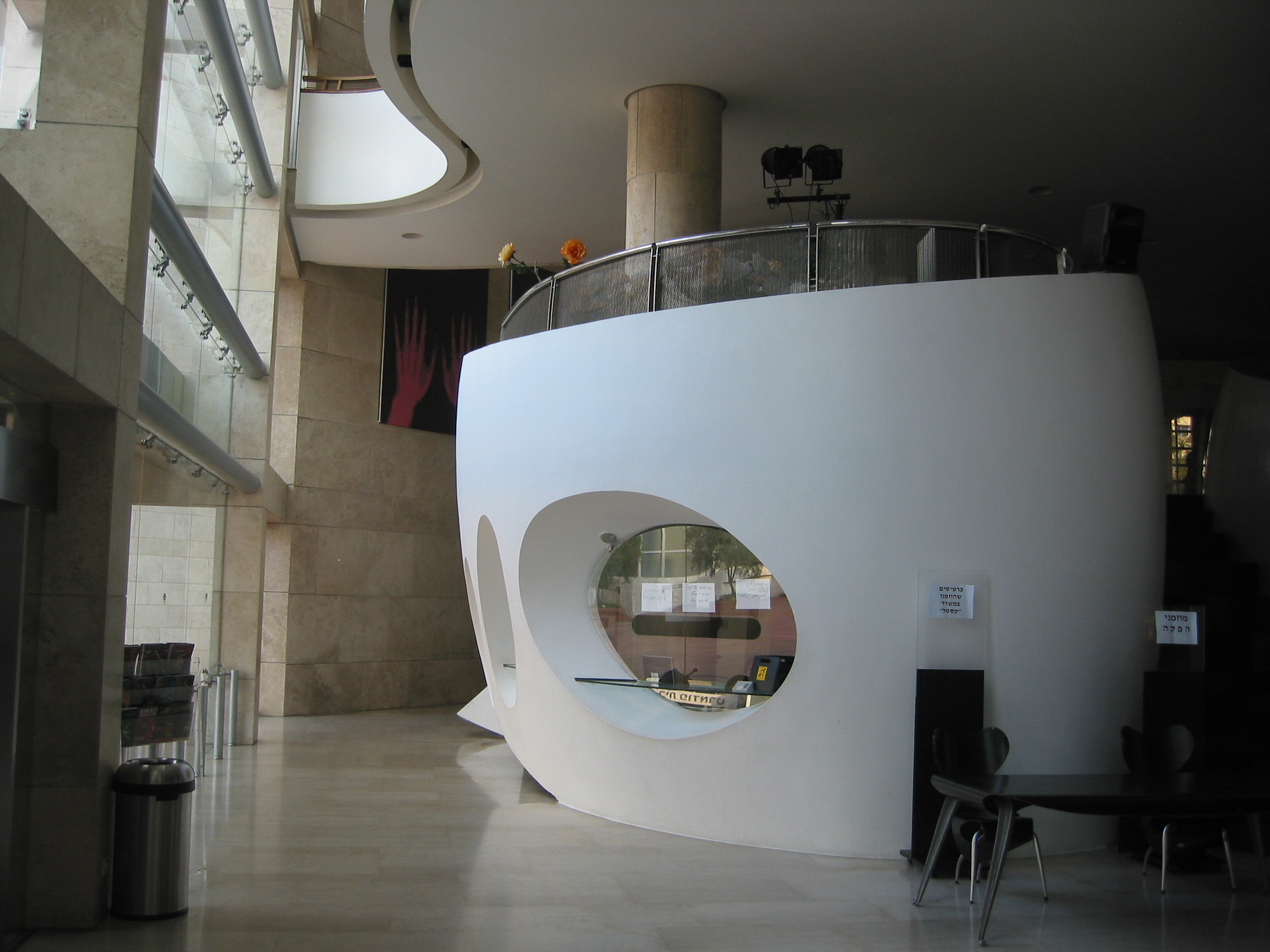 Performing Arts Center, Tel Aviv